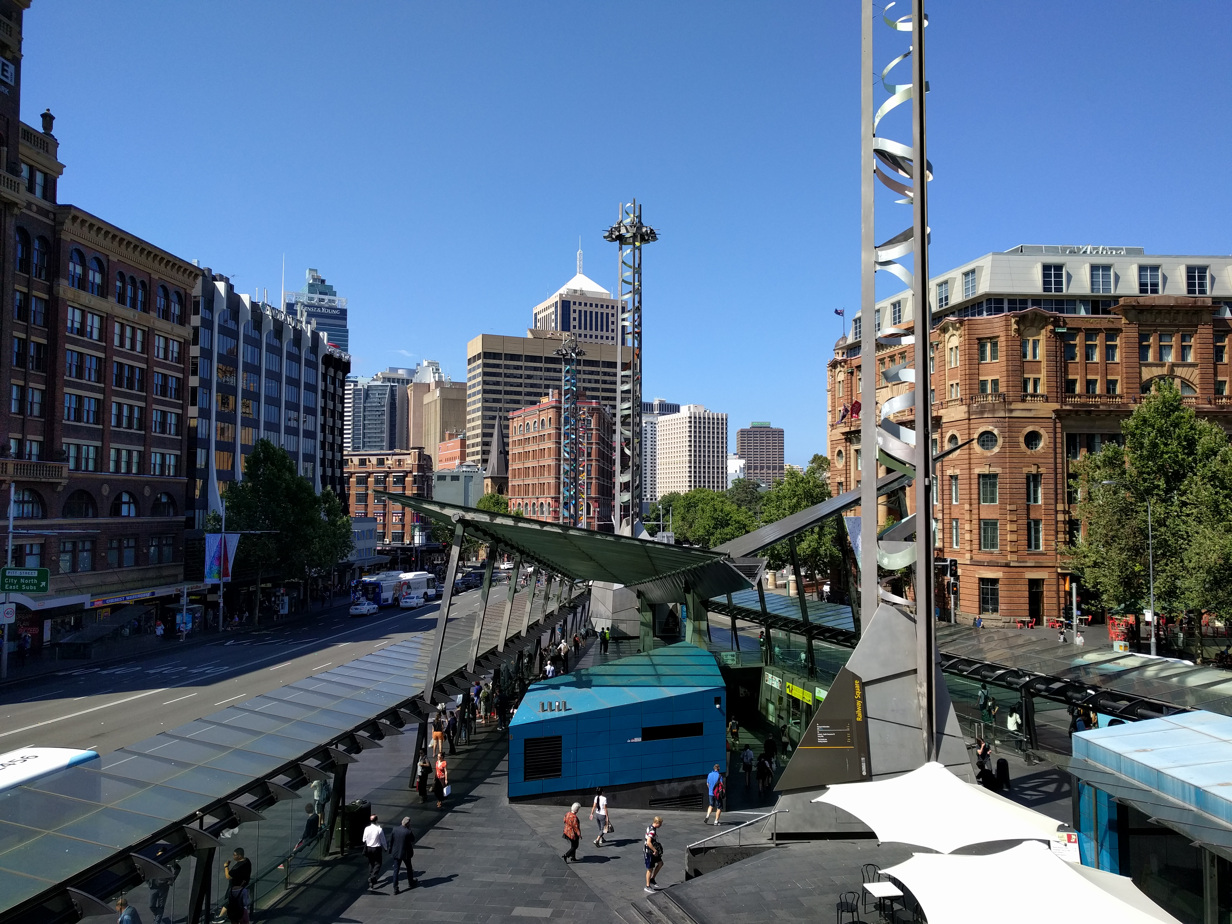 Railway Square viewed from the Mercure hotel